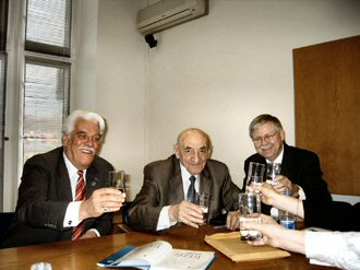 From left: Jesco von Puttkamer, space station senior engineer, Boris Chertok, chronicler of the Russian space program, and NASA Chief Historian Steven J. Dick toast the new English translation of Chertok's book "Rockets and People" in Moscow.